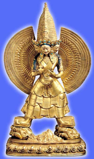 Sitatapatra Tibet, 18th c. Gilt bronze, H54 cm.